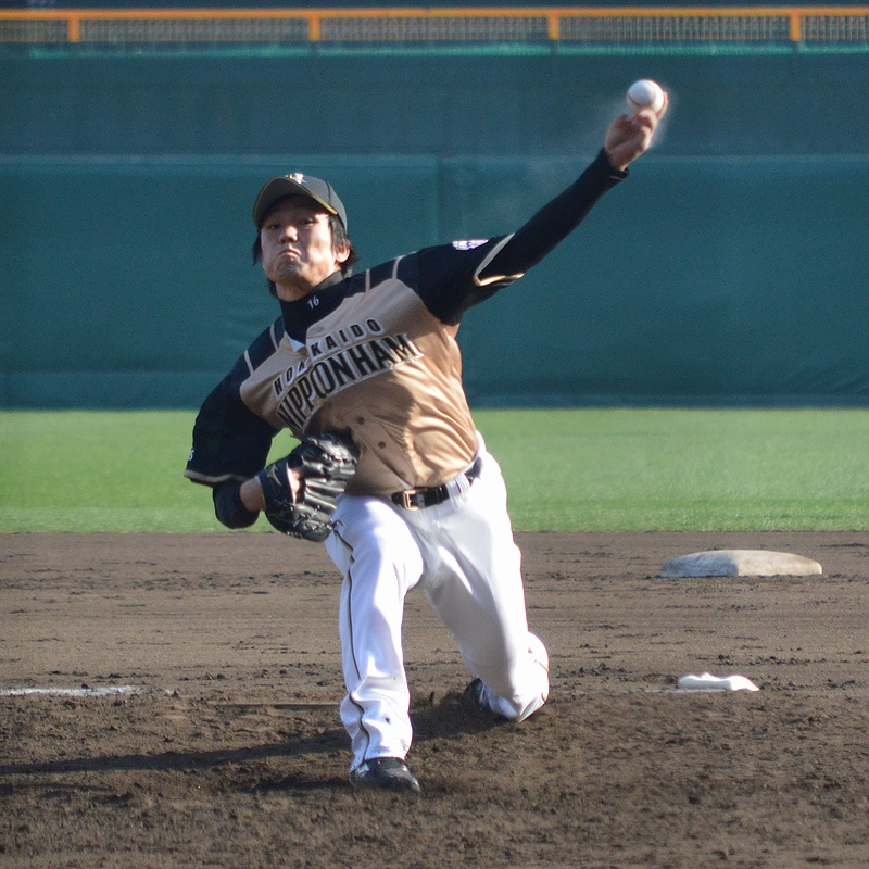 NF-Masahiro-Inui20130309